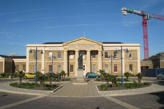 Royal Sea Bathing Hospital, Canterbury Road, Margate. It has been converted to apartments and is no longer used as a hospital.